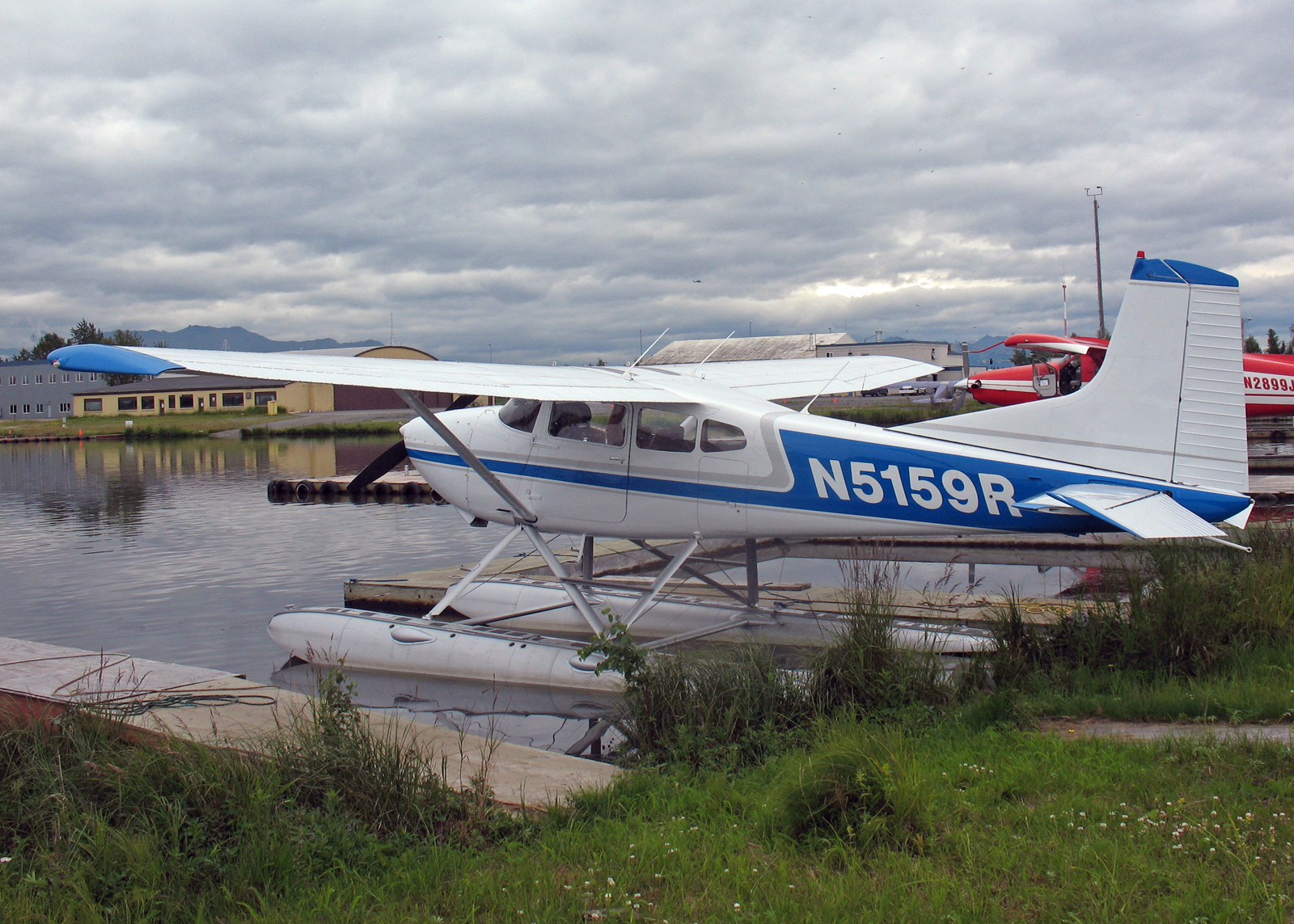 1976 Cessna A185F on floats